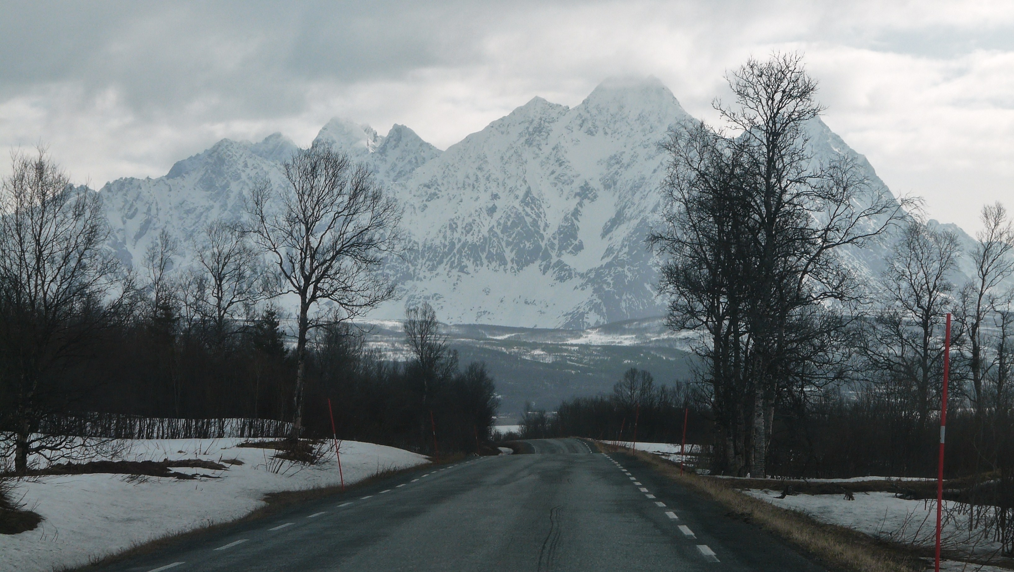 Riksvei 91 road view towards northeast and Lyngen Alps on the other side of Ullsfjorden while heading to Breivikeidet in 2009 May.